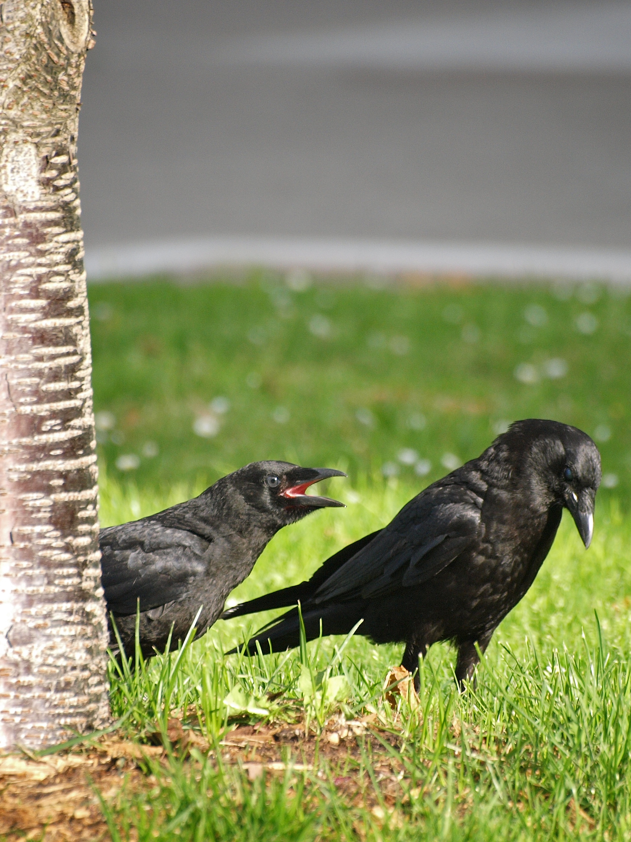 Corvus brachyrhynchos - This fledgling was bugging mom, but flying well and able to pick up some of his own snacks. (Young crows have blue eyes -- they're sort of blue-gray here. The eyes transition to dark brown, but the young crows we feed at the hospital have vivid, baby-blue eyes.)